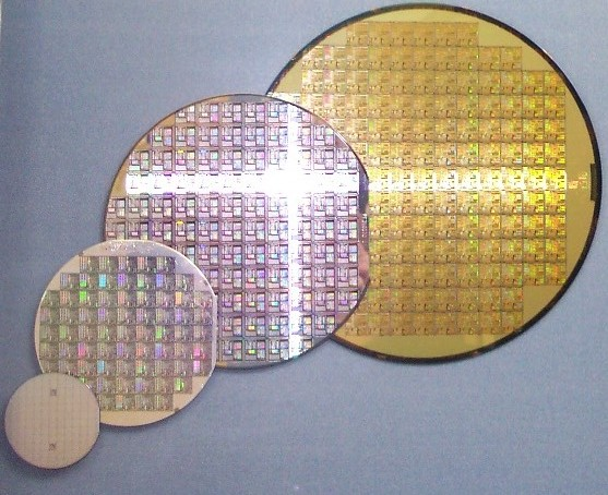 Image:Wafer 2 Zoll bis 8 Zoll.jpg uploaded by Saperaud